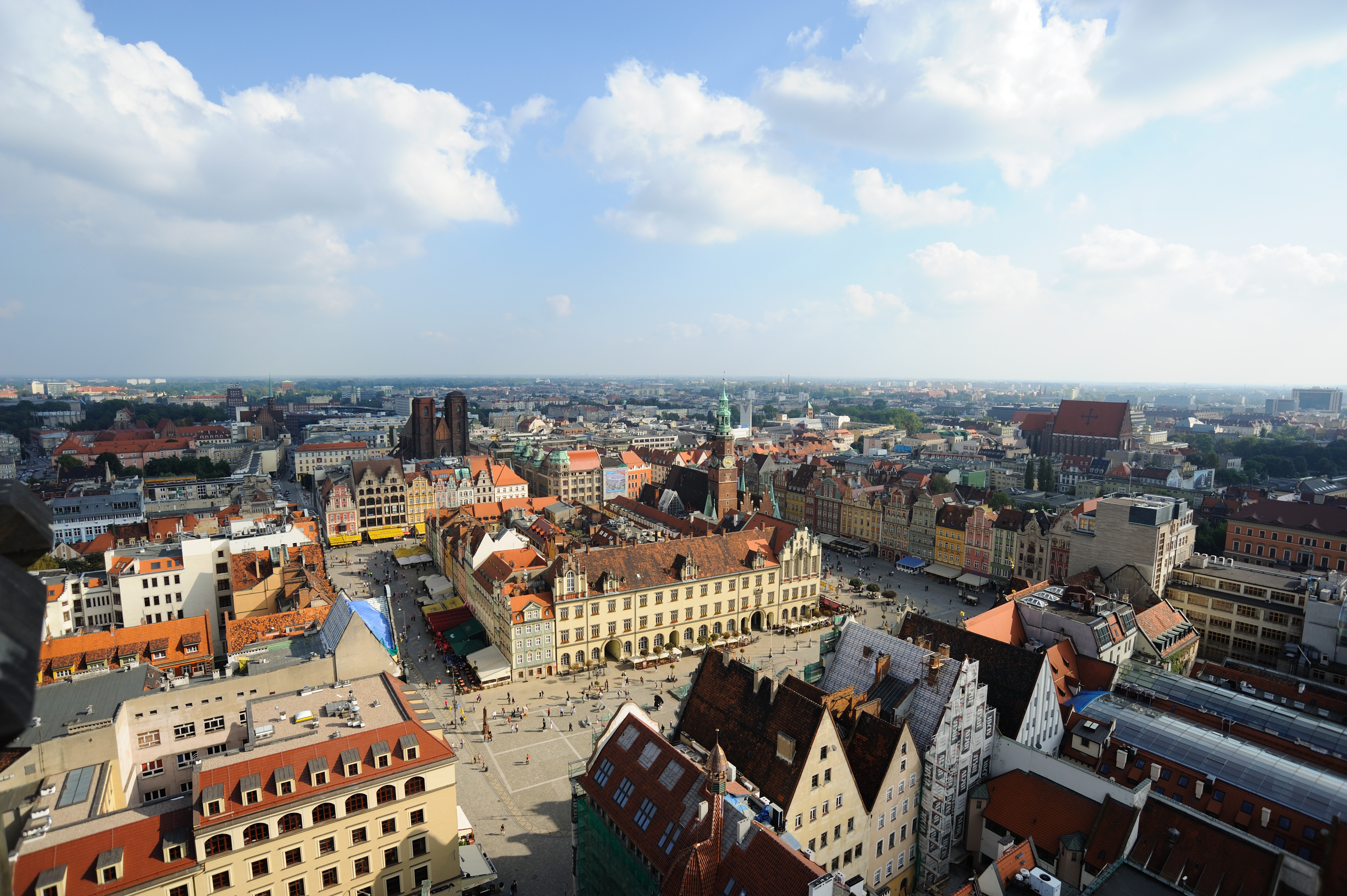 A view of Wroclaw